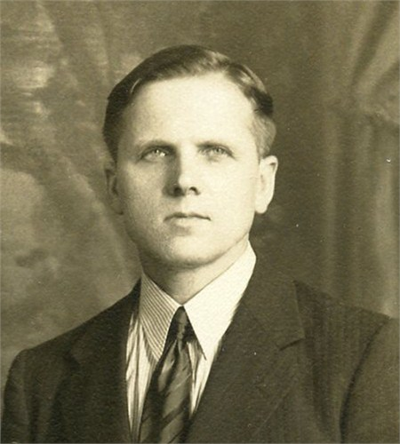 Portrait of Alexander Nelke (circa 1936)